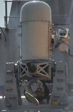 Phalanx Block 1B